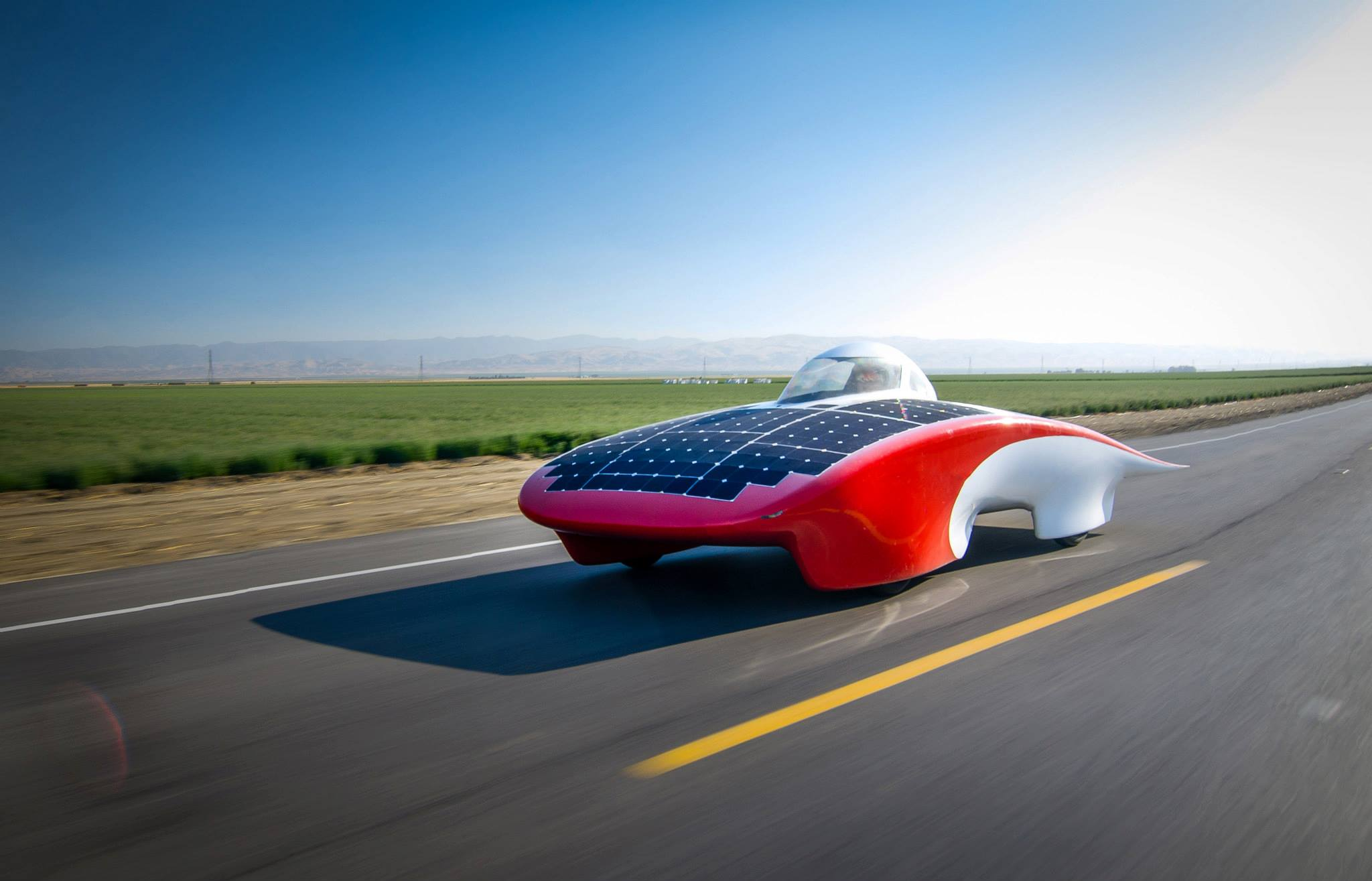 The 2013 Stanford Solar Car, Luminos, placed 4th in the World at the 2013 World Solar Challenge in Australia.